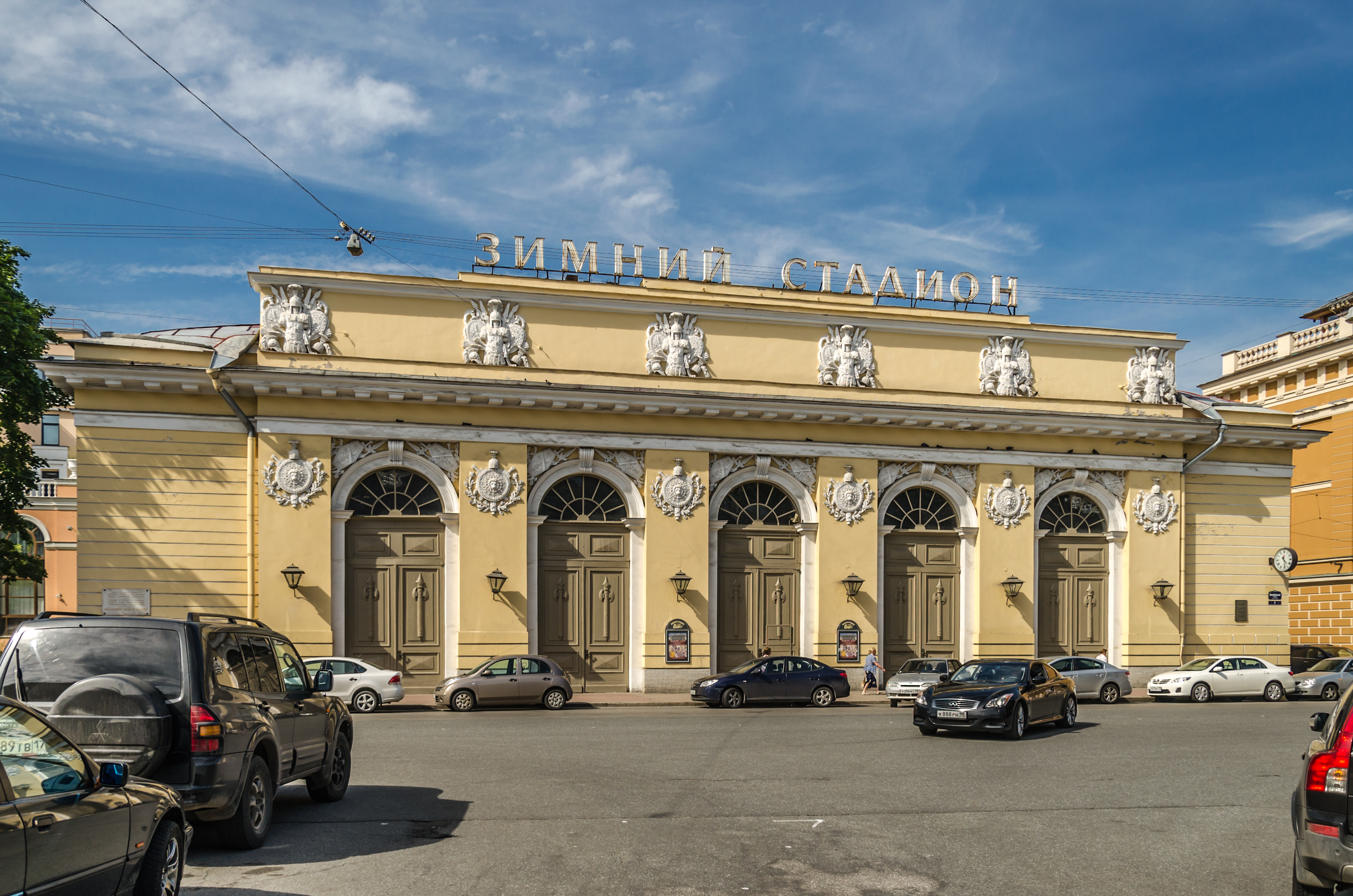 Zimniy Stadium in Saint Petersburg